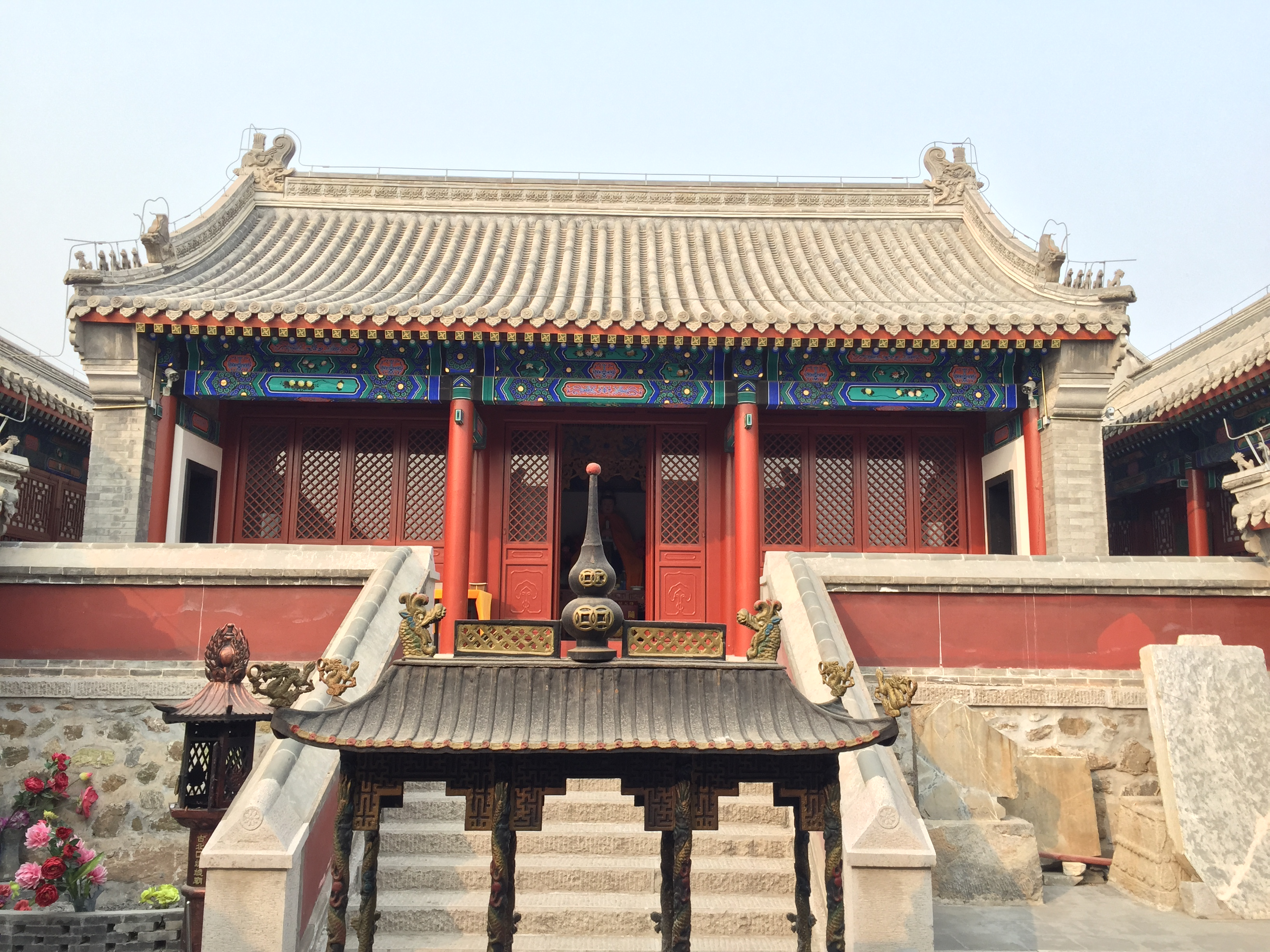 Just refurbished last year.